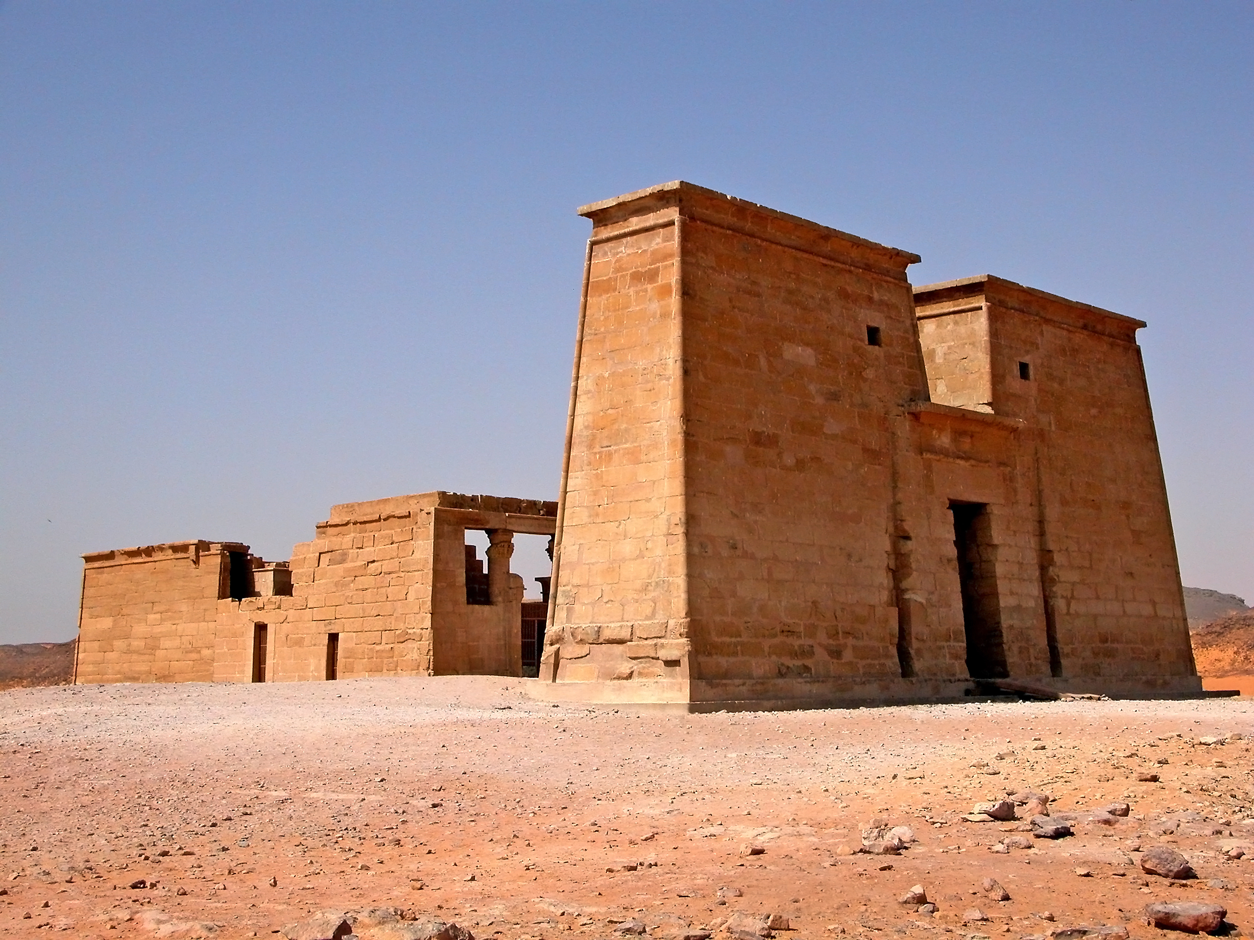 A view of the Temple of Dakka in Nubia as we leave to go to see the small Maharraka temple.